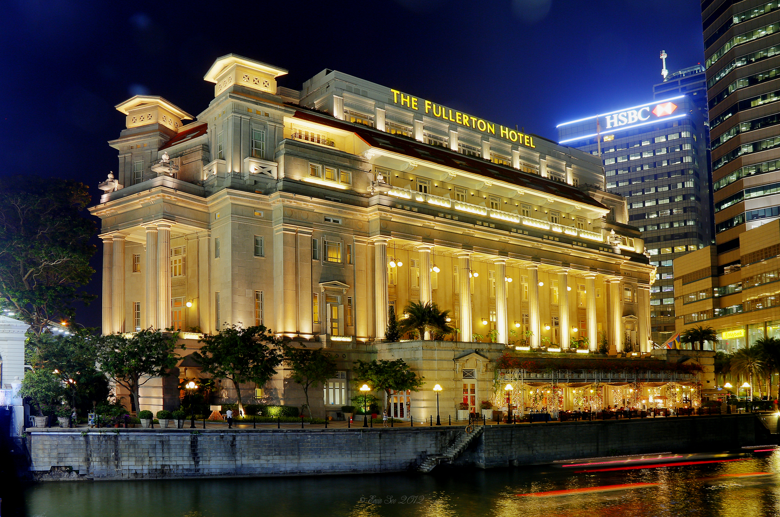 The Fullerton Hotel Singapore is a five-star luxury hotel located near the mouth of the Singapore River, in the Downtown Core of Central Area, Singapore. It was originally known as The Fullerton Building, and also as the General Post Office Building.[1][2]. The address is 1 Fullerton Square.